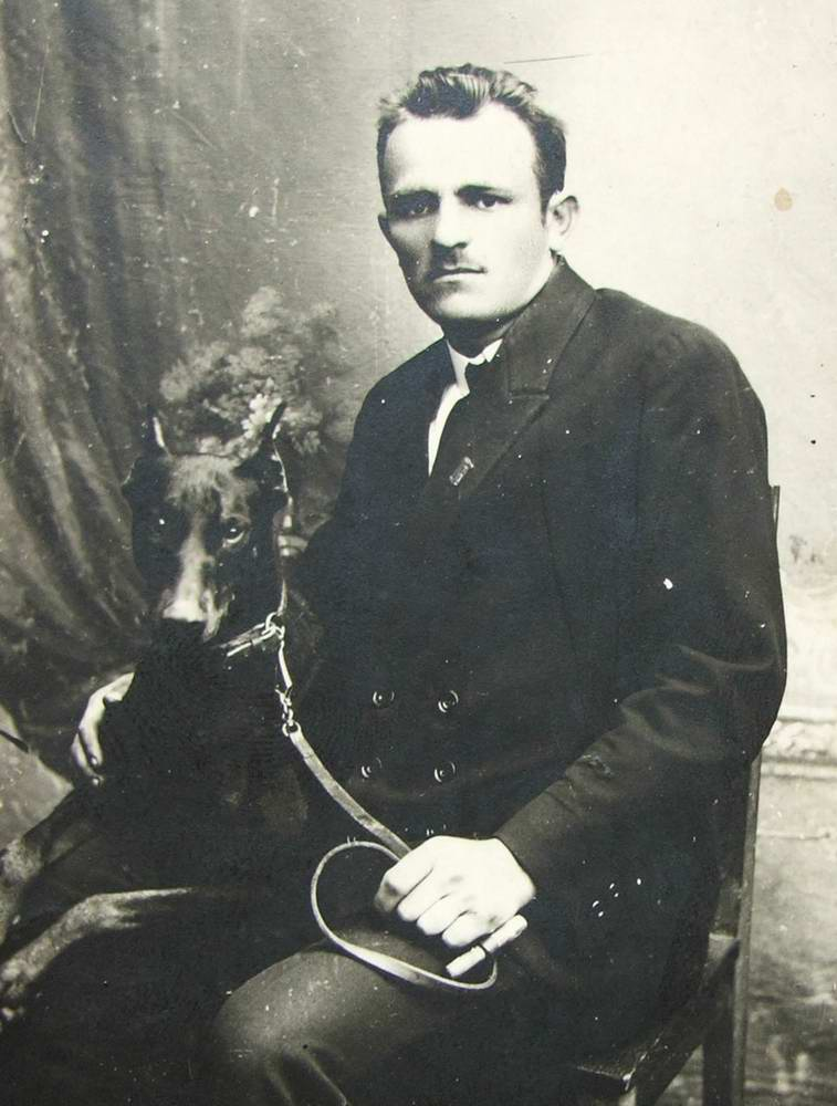 Stanislav Broj in 1930's.